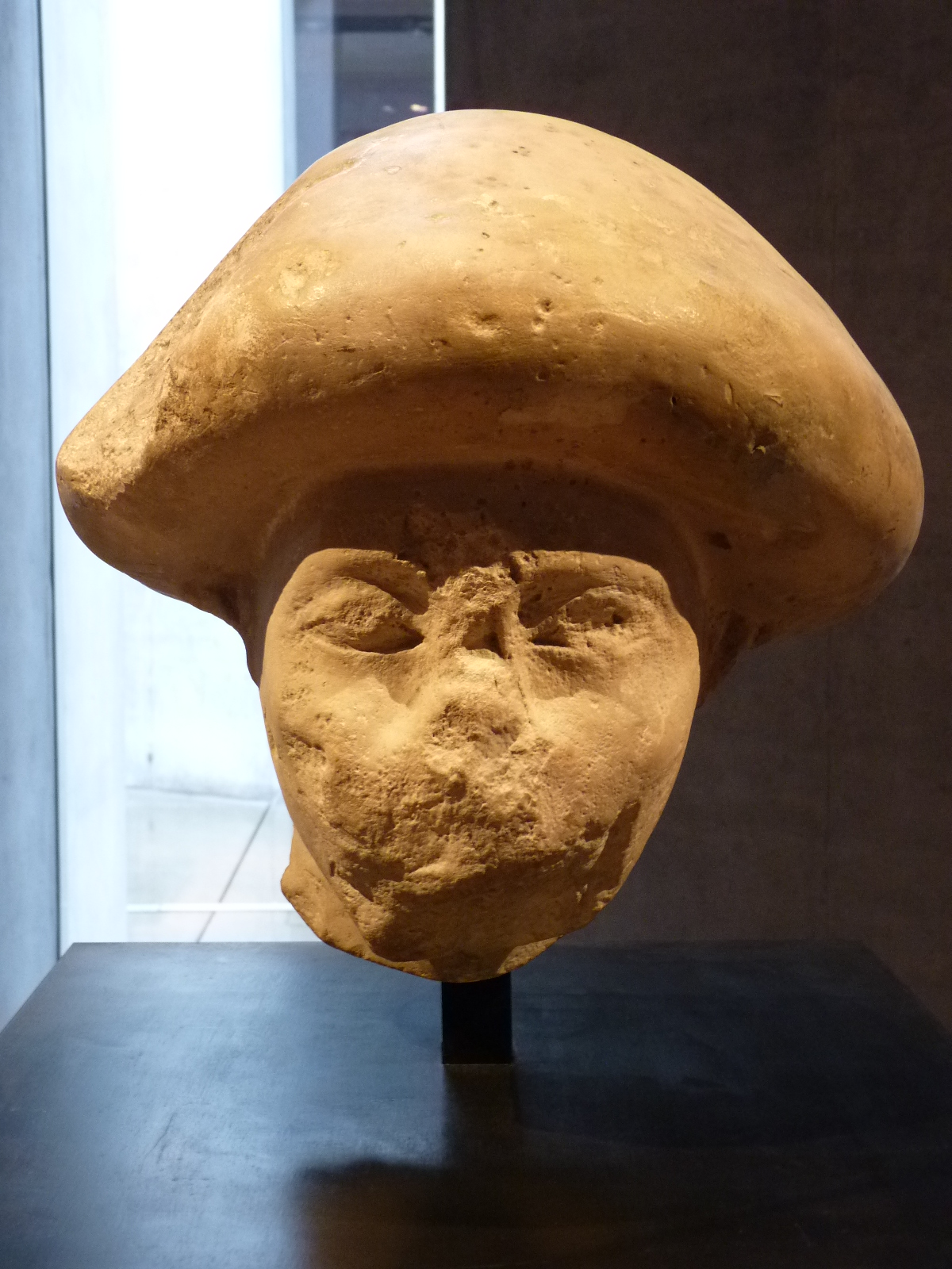 Statue head of an asiatic official with a mushroom-shaped hairstyle, from Avaris